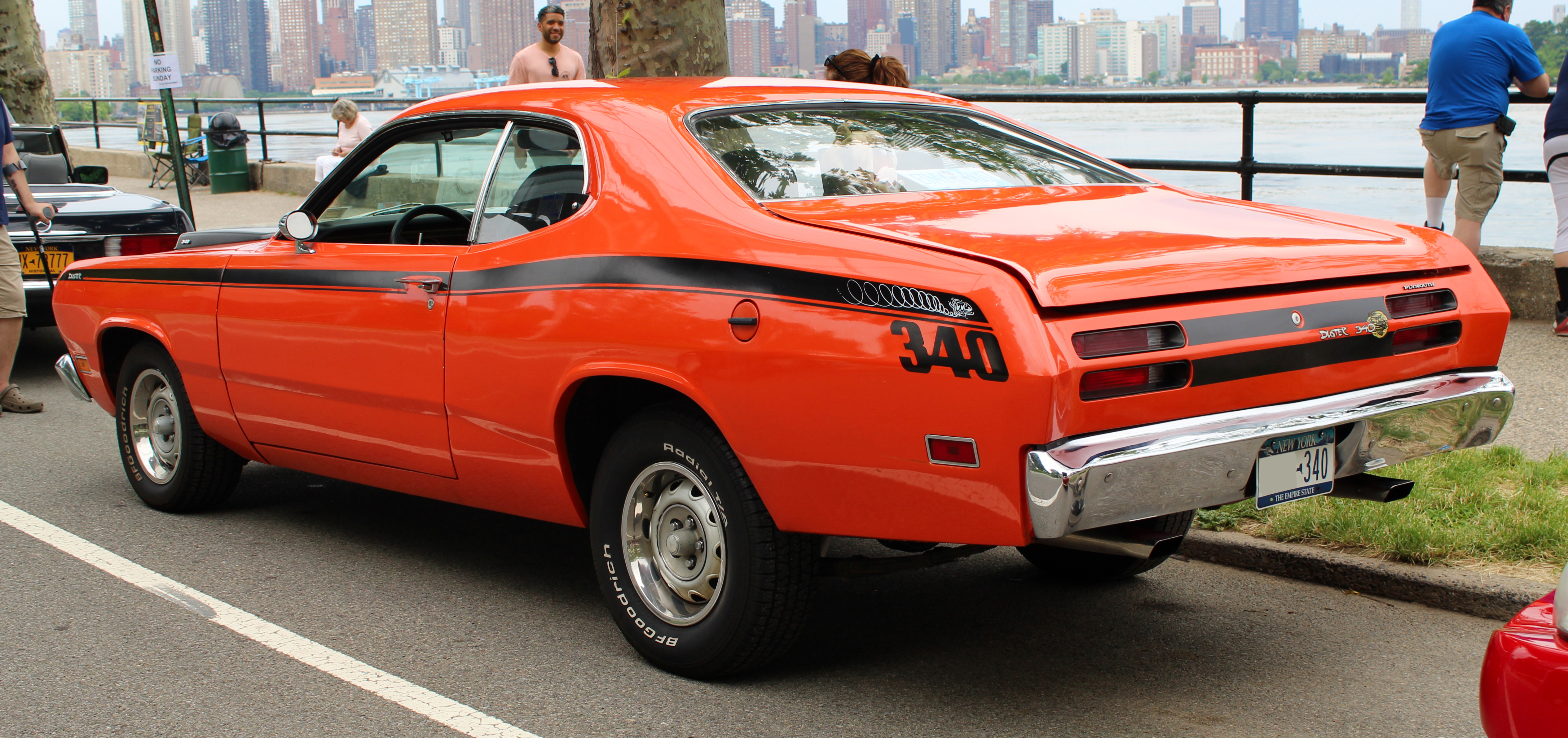 A 1971 Plymouth Duster 340 photographed at Astoria Park, in Astoria, Queens, New York, USA